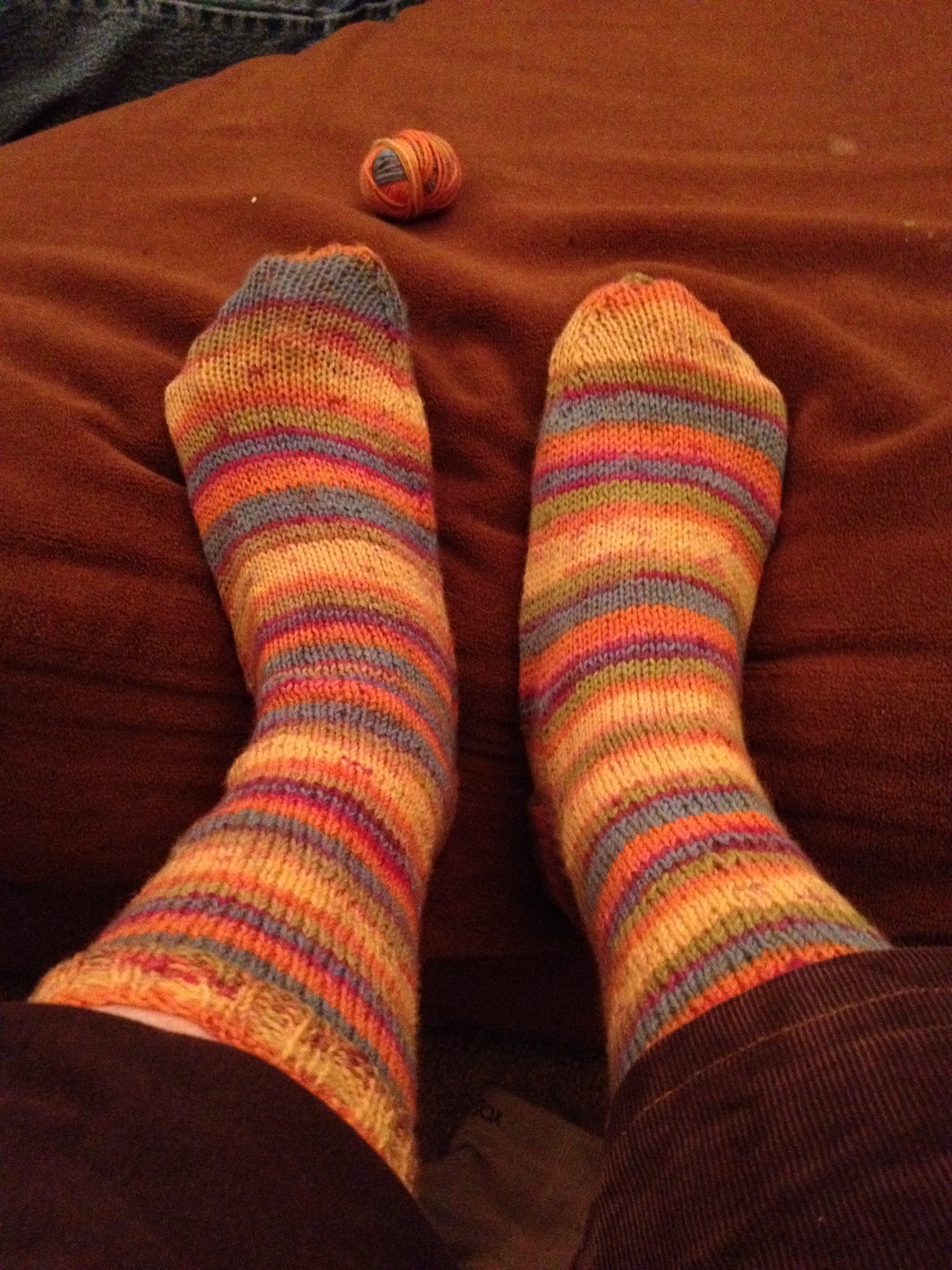 Striped socks